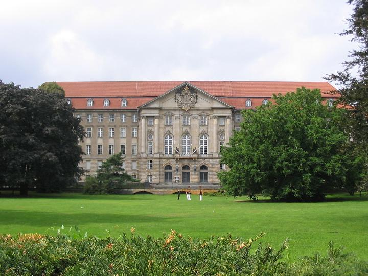 Heinrich-von-Kleist-Park in Berlin-Schöneberg with Superior Court of Justice, 1934-1945 People's Court (German)